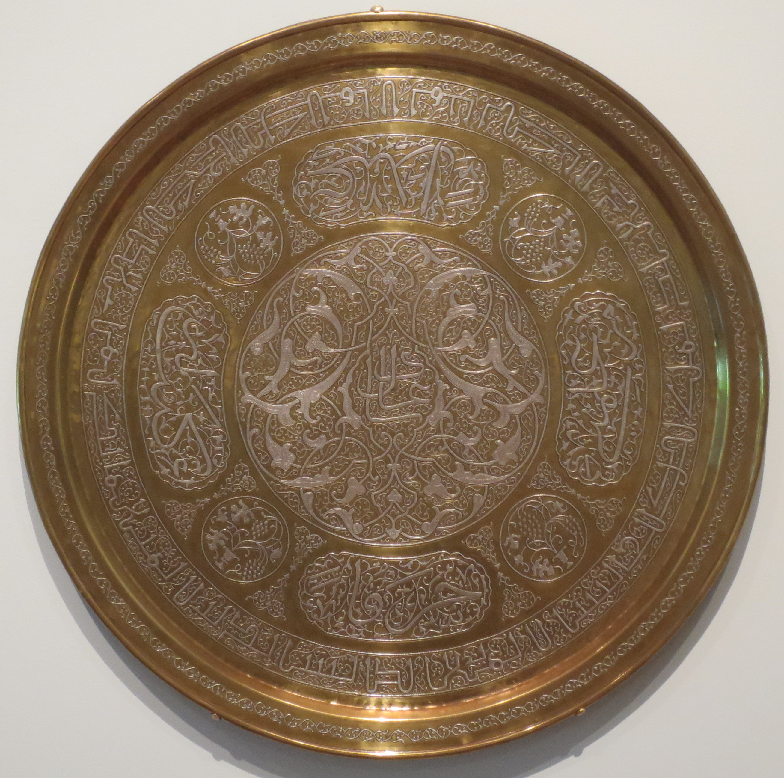 Brass tray inlaid with silver, Egypt or Syria, 19th century, Honolulu Museum of Art (long-term loan from the Doris Duke Foundation for Islamic Art)